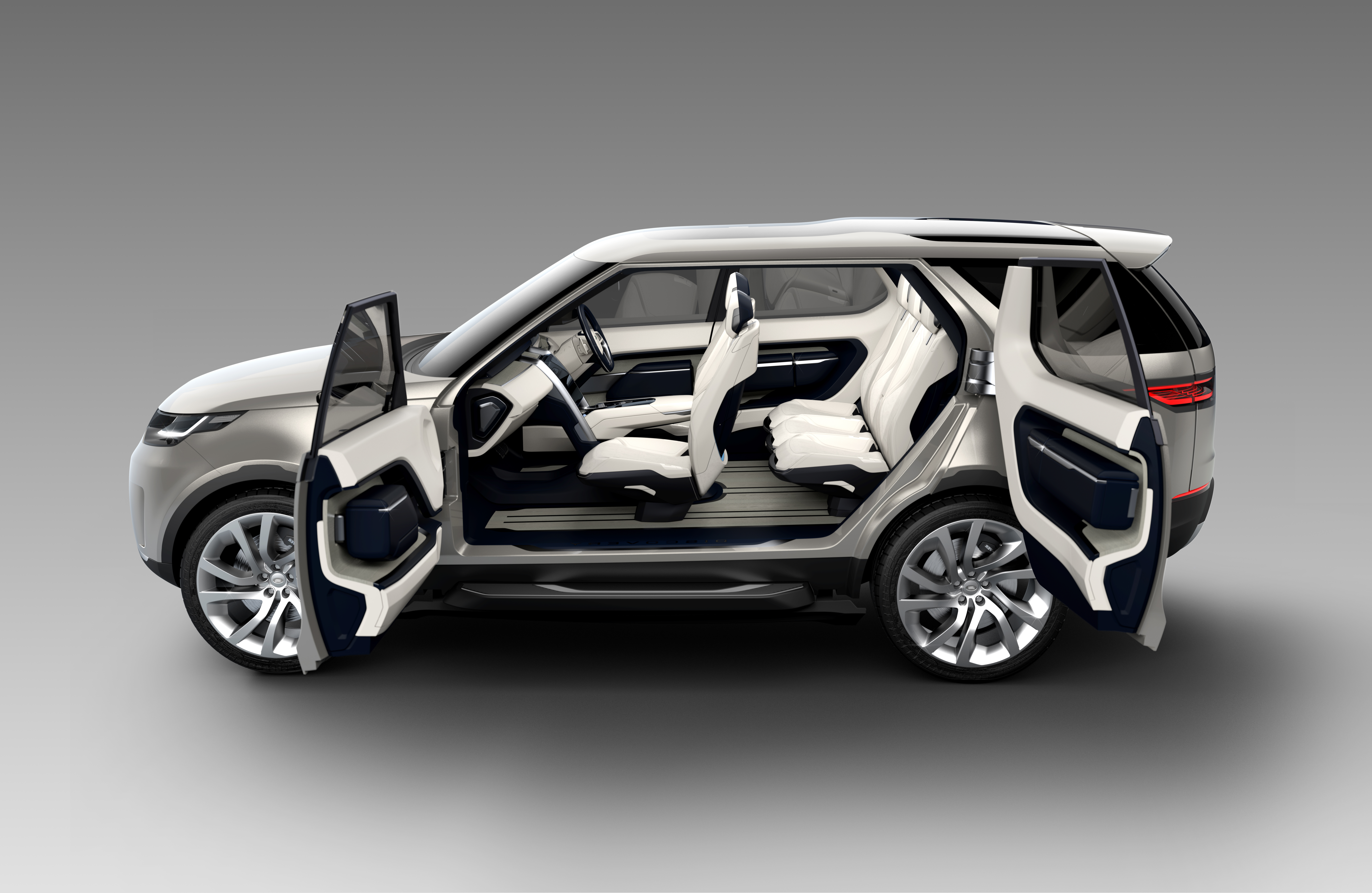 Land Rover today revealed its Discovery Vision Concept SUV in New York. It is a vision of Land Rover's future family of Discovery vehicles, the first model of which is due in 2015. The concept car previews dynamic new design language and an array of innovative versatility and capability features, while also showcasing pioneering technologies from Jaguar Land Rover's advanced research division. Learn more: bit.ly/1t02blu